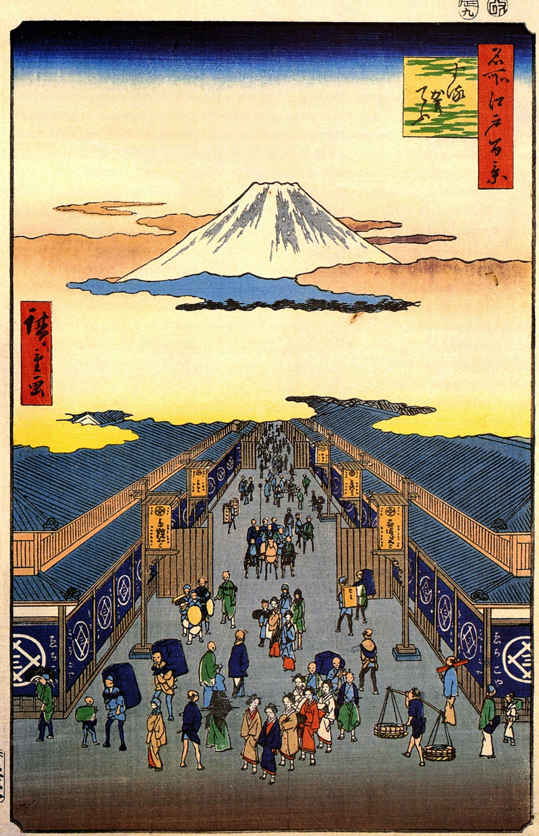 Suruga Street (Surugachō), from the series One Hundred Famous Views of Edo (Meisho Edo hyakkei). Utagawa Hiroshige designed an ukiyo-e print with Mt. Fuji and Echigoya as landmarks. Echigoya is the former name of Mitsukoshi named after the former province of Echigo. The Mitsukoshi headquarters are located on the left side of the street.